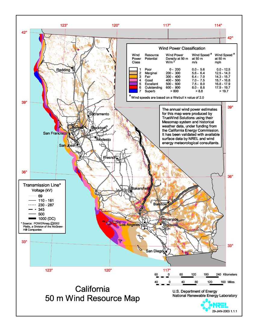 Average annual wind power distribution for California, 50m height above ground, also showing location of existing electrical transmission lines